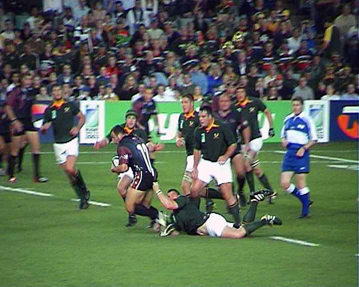 The best game of the Rugby World Cup 2003, South Africa vs Georgia. Criticised and ridiculed, their place in the tournament questioned, Georgia won the hearts of the Sydney crowd. Australians are known for getting behind the underdogs, and this was no exception. Georgian officials saluted the tremendous vocal support they got from the Sydney crowd. "It was a very good surprise for us, it's very good to see the players being encouraged. It gives them energy," Georgia coach Claude Saurel said.